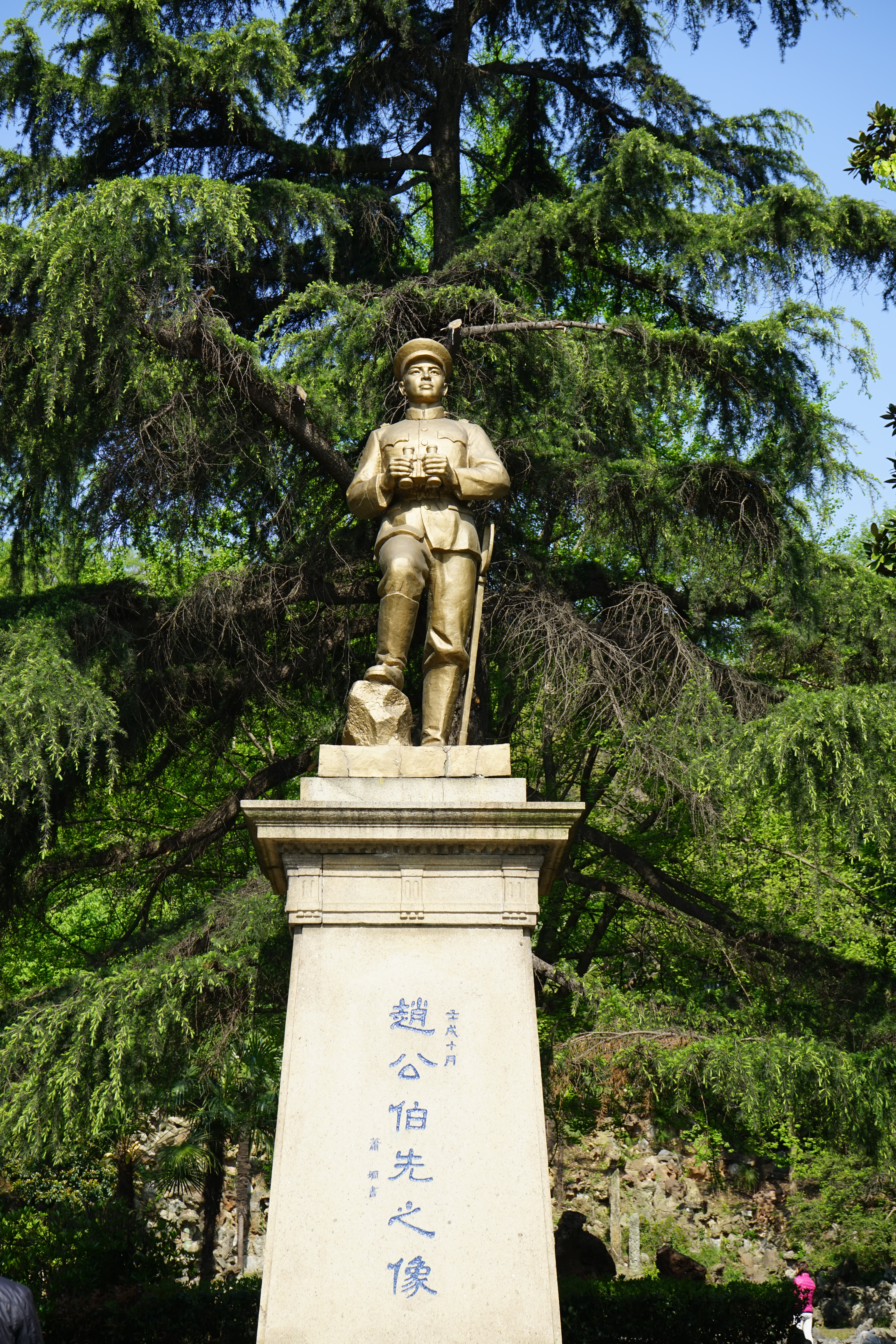 Zhao Boxian statue. Boxian Park